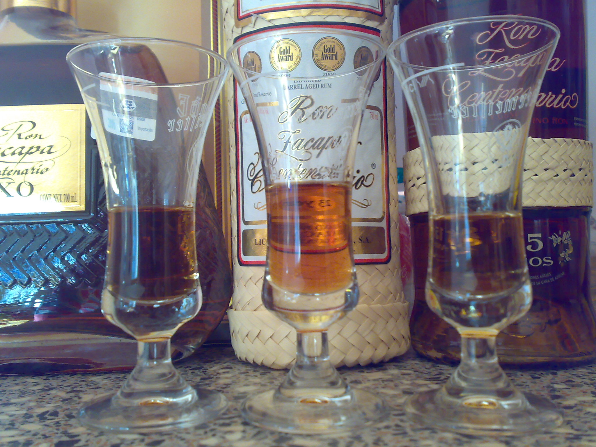 3 bottles of Zacapa rum. From left to the right, 25 years old XO, 23 years old and 15 years old.